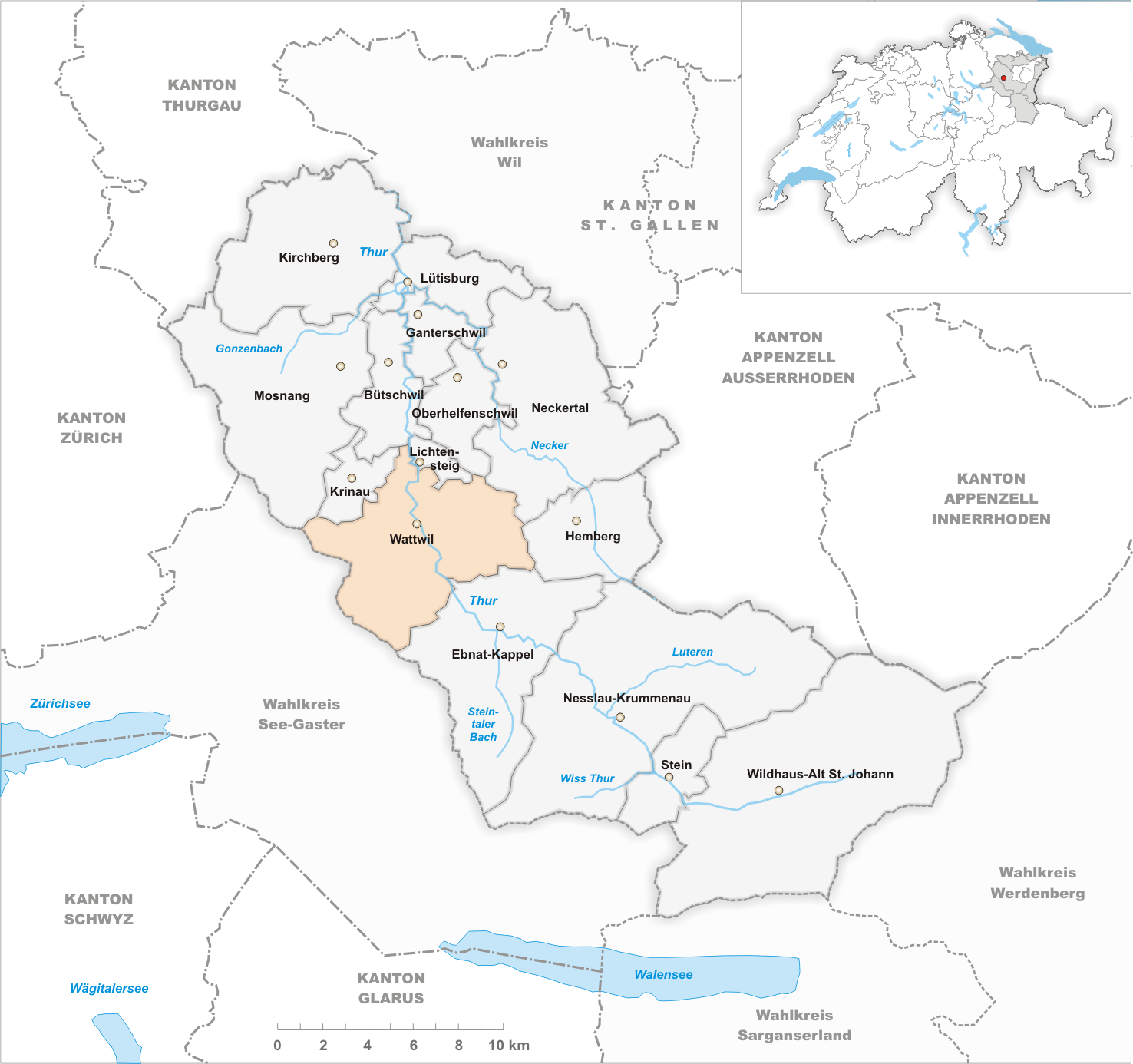 Municipality Wattwil